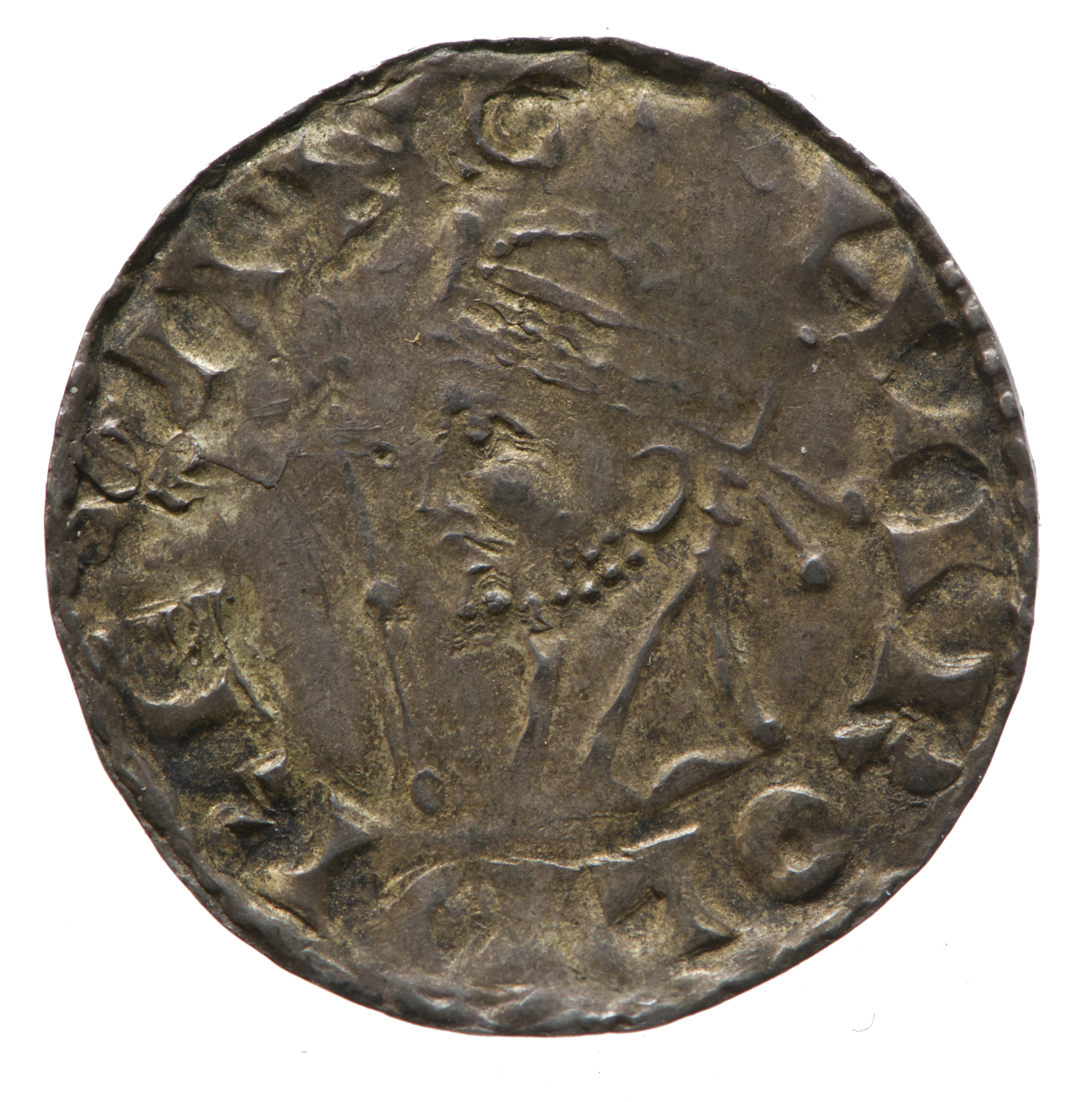 Obverse (front) of a silver penny of Harold_Godwinson Head facing left